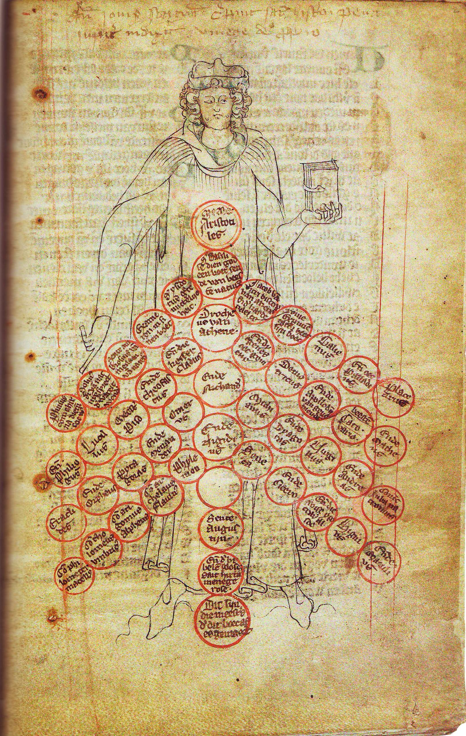 Der naturen bloeme. Picture with the many scholar sources of the work. From: From: Frits van Oostrom: Stemmen op schrift